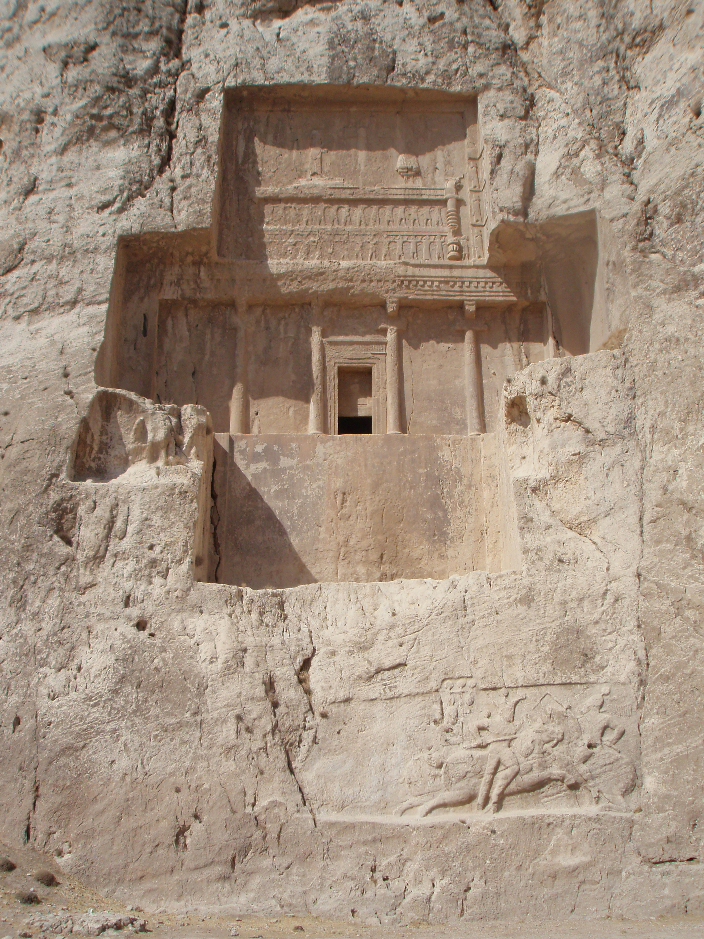 Prospective tomb of Darius II in Naqsh-e Rustam, Iran.